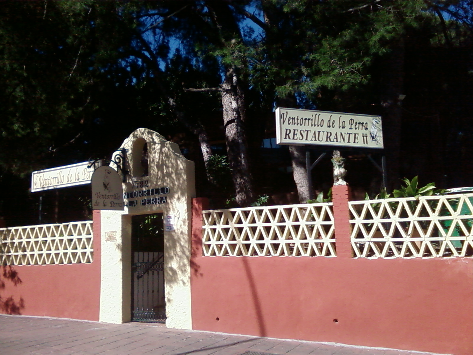 "Ventorrillo de la Perra" Inn, Benalmádena, Málaga, Spain